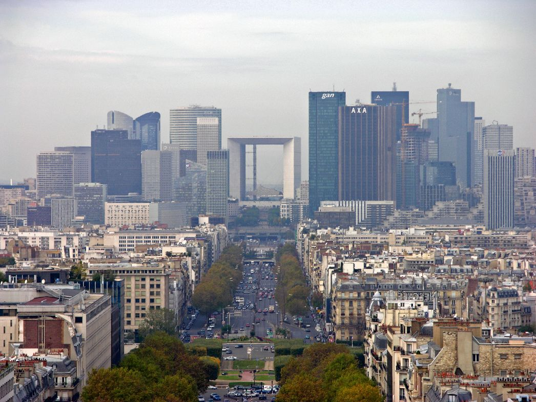 La Défense and the Grande Arche from the top of the Arc de Triomphe.